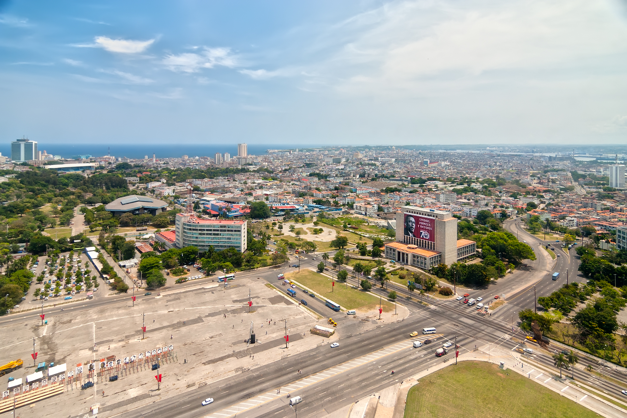 Havana aerial view from Jose Marti monument. Right down the Plaza de la Revolucion is situated with preparations to celebrating '1 de Mayo'.